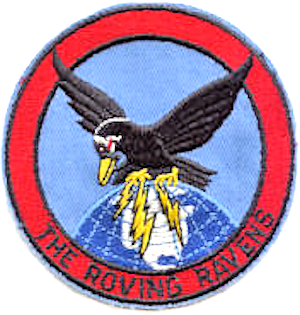 Emblem of the 4713th Defense System Evaluation Squadron